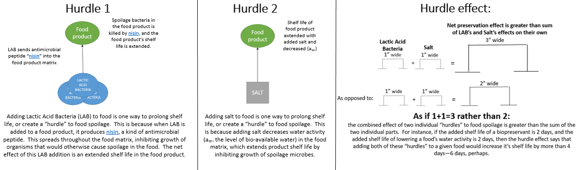 This figure illustrates the pathway of food preservation followed by lactic acid bacteria involving Nisin, as well as the pathway of food preservation followed by salt. Additionally, the hurdle effect of food preservation, such as by adding lactic acid bacteria and salt to a food product, is illustrated and described. References: Adams, Martin R., Maurice O. Moss, and Peter McClure. Food Microbiology. 4th ed. N.p.: Royal Society of Chemistry, 2014. Print. "Lactic Acid Bacteria - Their Uses in Food." EUFIC. The European Food Information Council, Jan. 2016. Web. 26 Nov. 2016. Parish, Mickey. "How Do Salt and Sugar Prevent Microbial Spoilage?" Scientific American. Scientific American, a Division of Nature America, Inc., 17 Feb. 2006. Web. 27 Nov. 2016. Soomro, Aijaz Hussain, Tariq Masud, and Anwaar Kiran. "Role of Lactic Acid Bacteria (LAB) in Food Preservation and Human Health – A Review." ResearchGate. Asian Network for Science Information, Jan. 2002. Web. 27 Nov. 2016.